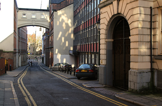 The Gates of Nottingham (9a) Houndsgate - looking towards St.Peter's Square. Textile factories could be found even this close to the centre of the City. Next in series 349925